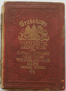 Cover of: Bradshaw’s Continental Railway Guide, March 1891